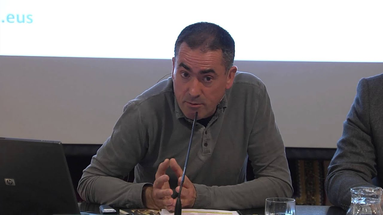 Patxi Saez Beloki, 2016-02-12, speech at the Academy of the Basque language